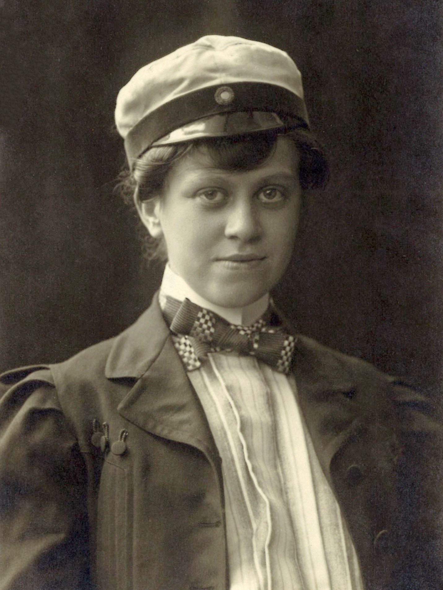 Elsa Collin (1887-1941), Swedish theatre critic, poet and actress; as a student at Lund University the first woman ever to perform in a Spex (theatre).